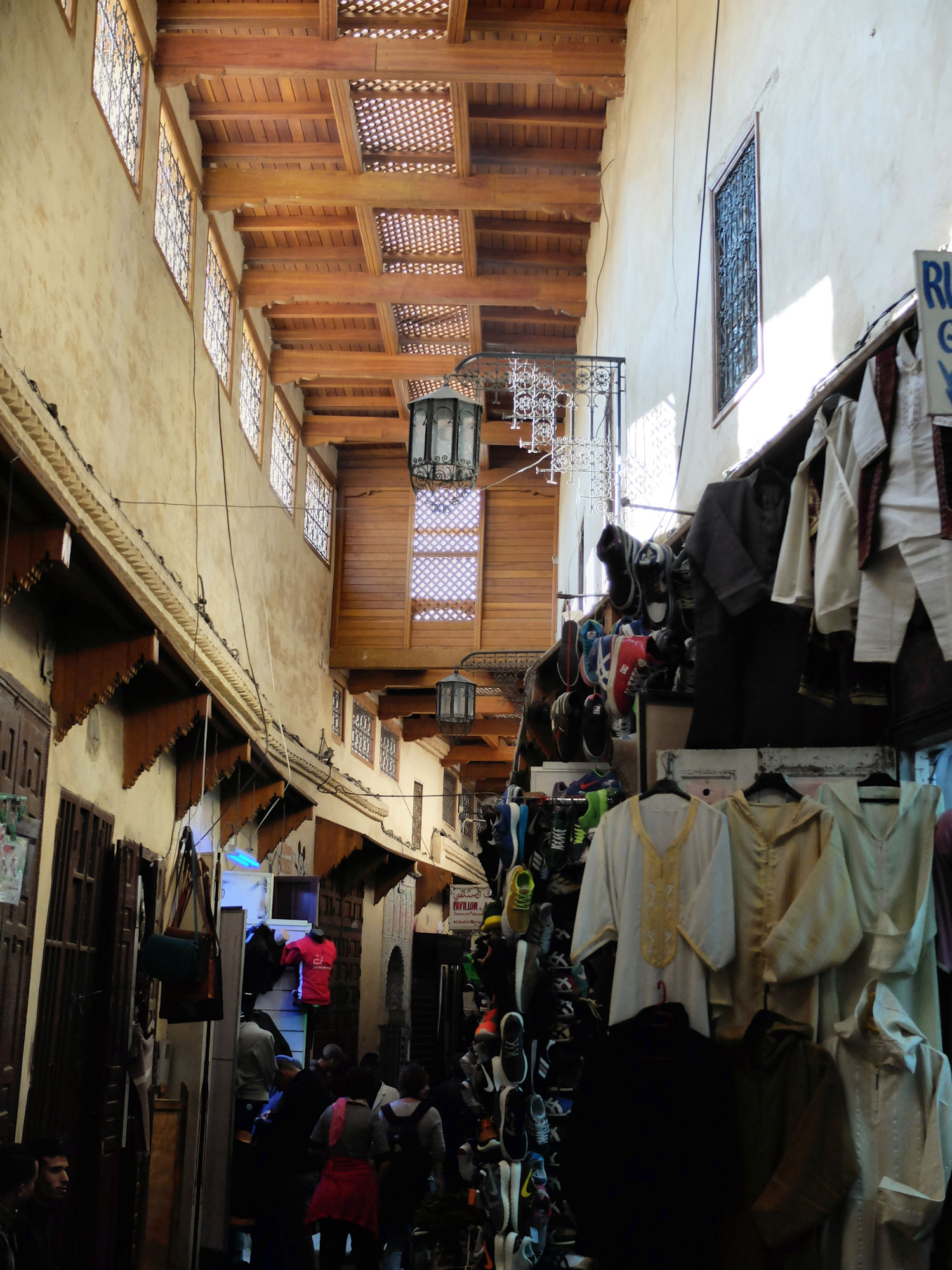 Souk (market) street in the Medina of Meknes, close to the Bu Inania Madrasa